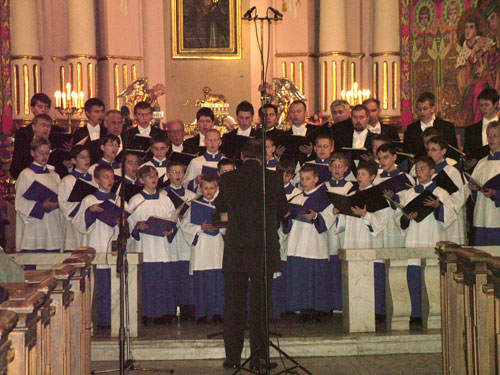 The Poznan Cathedral Choir of Men and Boys during an opening concert at the Komorniki Festival of Organ and Chamber Music (Poland, June 2006).